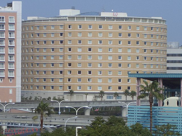 This is a picture of"Tokyo_Bay_Maihama_Hotel". I took from one of rooms of Sheraton Grande Tokyo Bay Hotel.